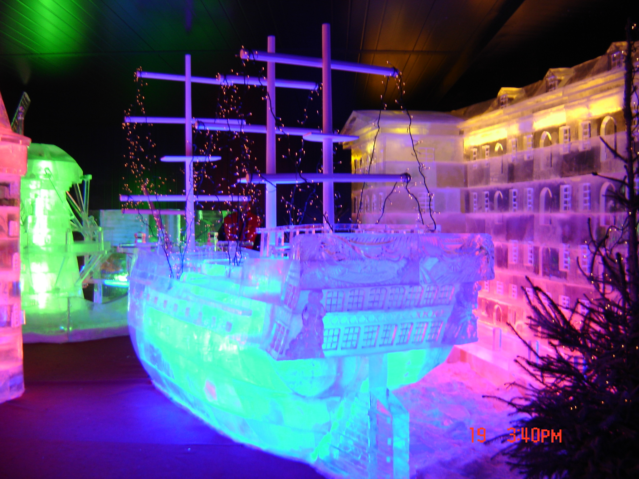 Schip van IJs, Madurodam, February 19, 2006 Ship built from ice